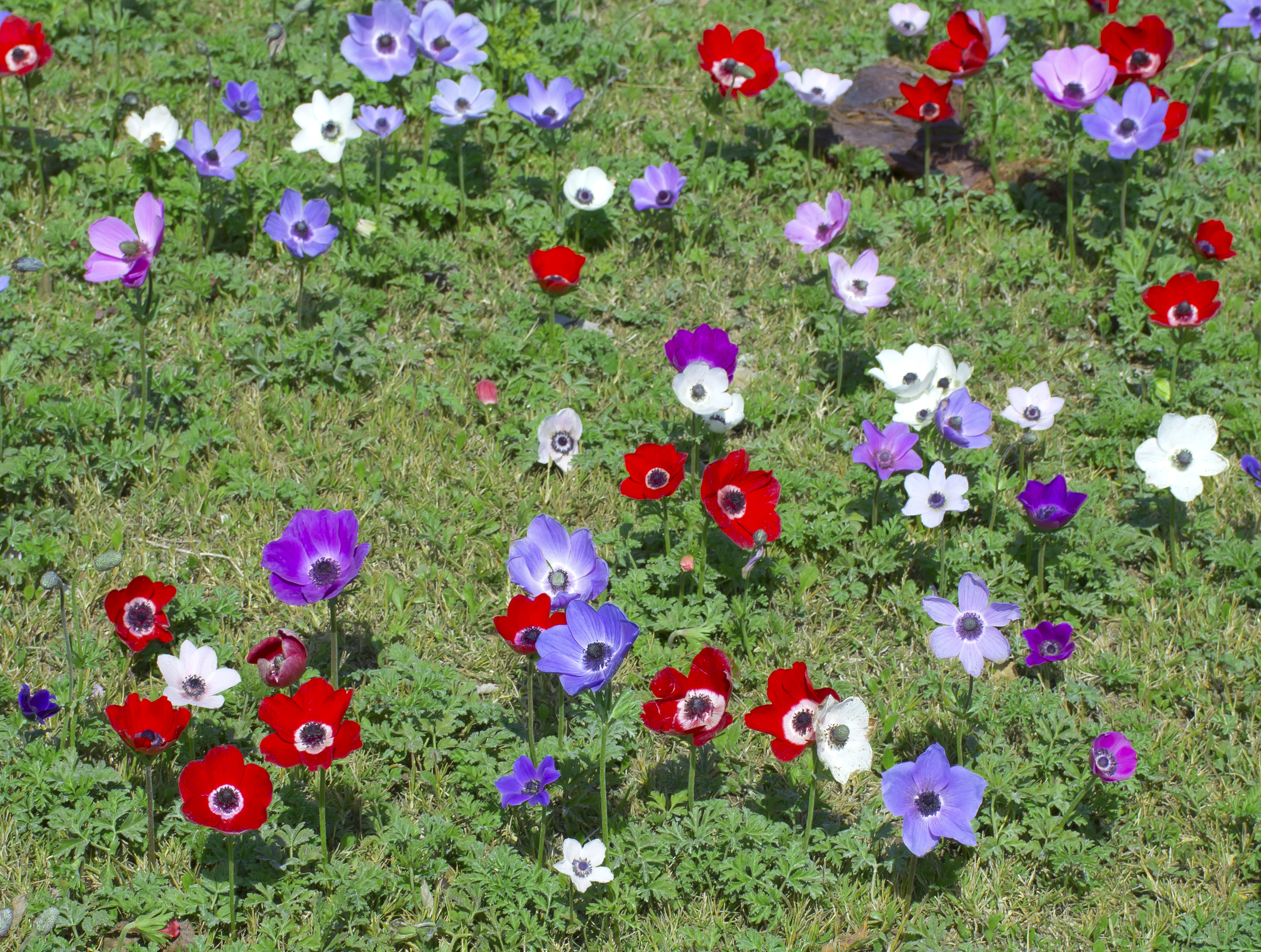 Anemone coronaria in Kibbutz Dalia, Ramot Menashe, Israel